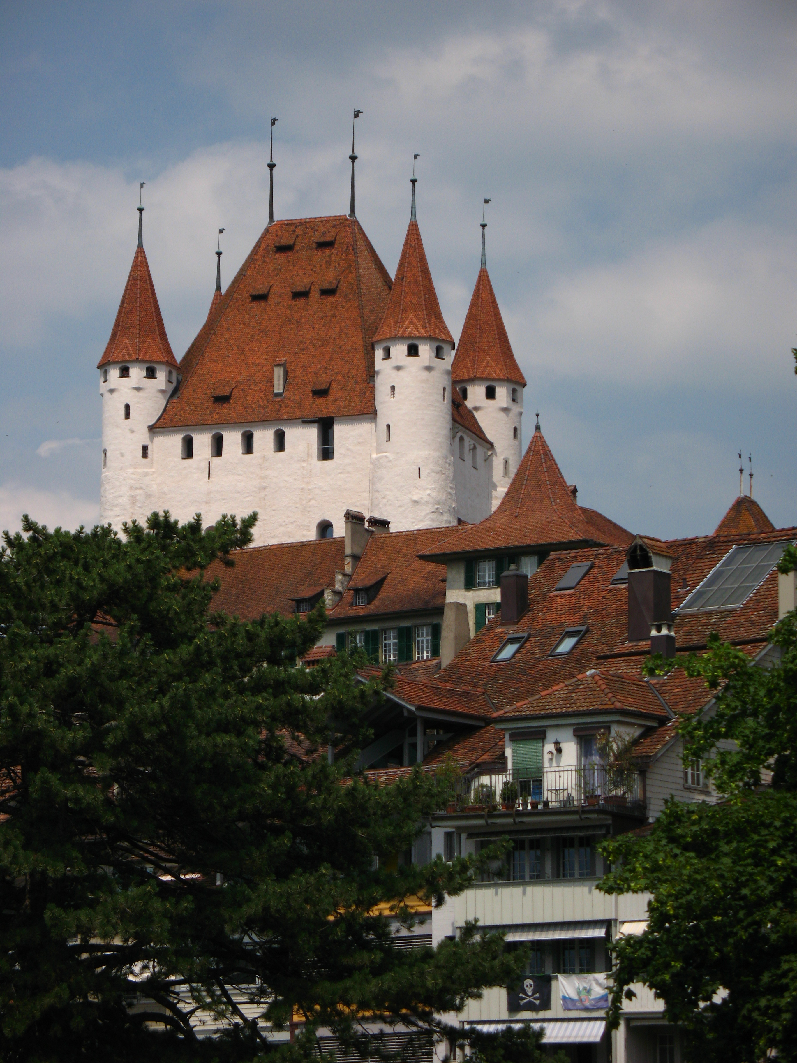 Castle Thun, Thun, Switzerland